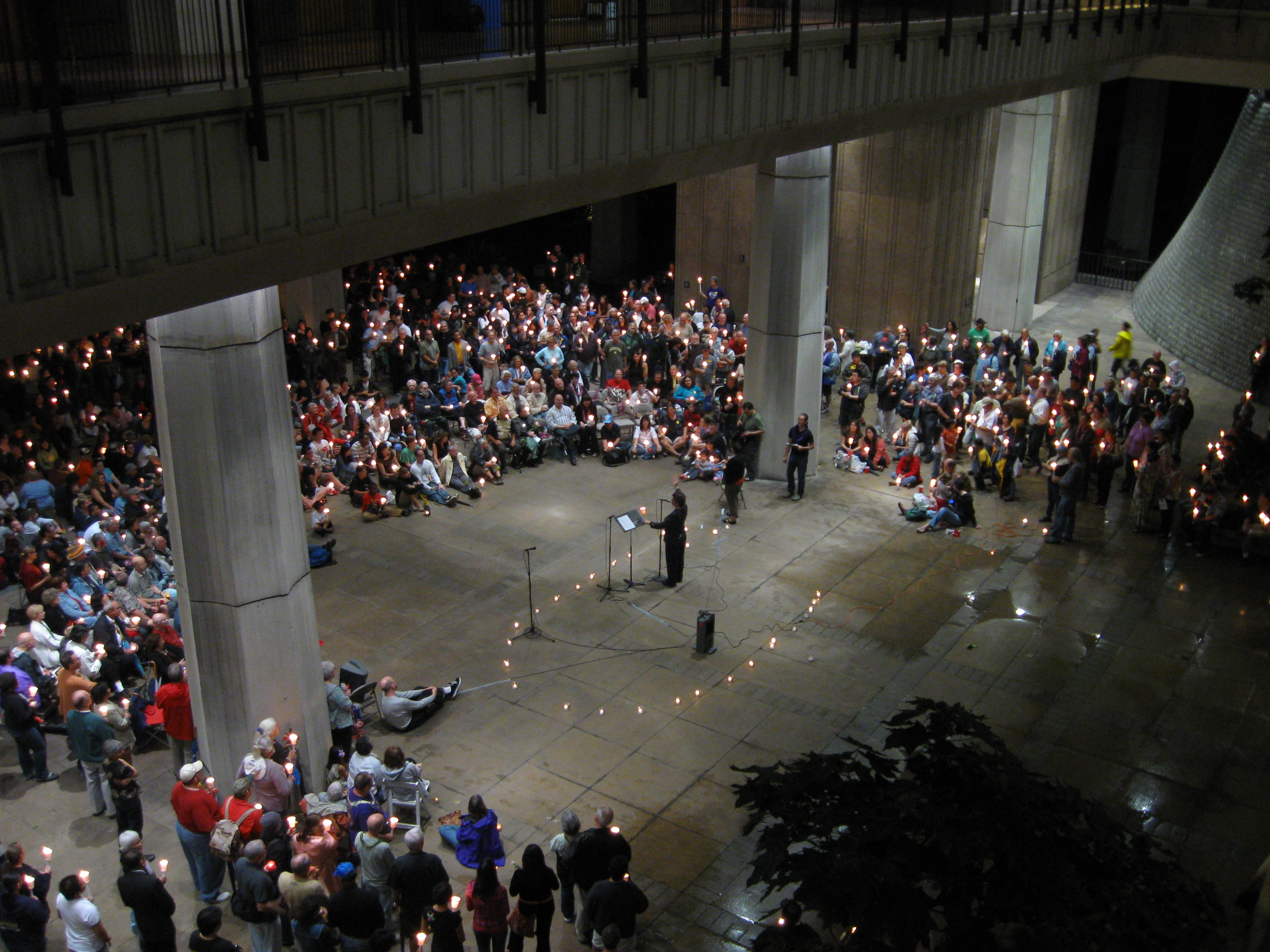 Rally at the Honolulu state capitol supporting the passage of Hawaii House Bill 444